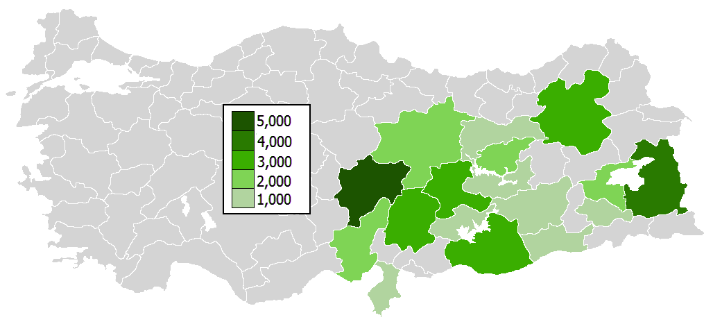 Number of Crypto-Armenian families in Turkey by provinces, according estimates of "different organizations and researchers works". "The numbers are subject to change depending on the state detected" published on Aksiyon weekly Türkiye'de, Araplaşan binlerce Ermeni de var Aksiyon archived